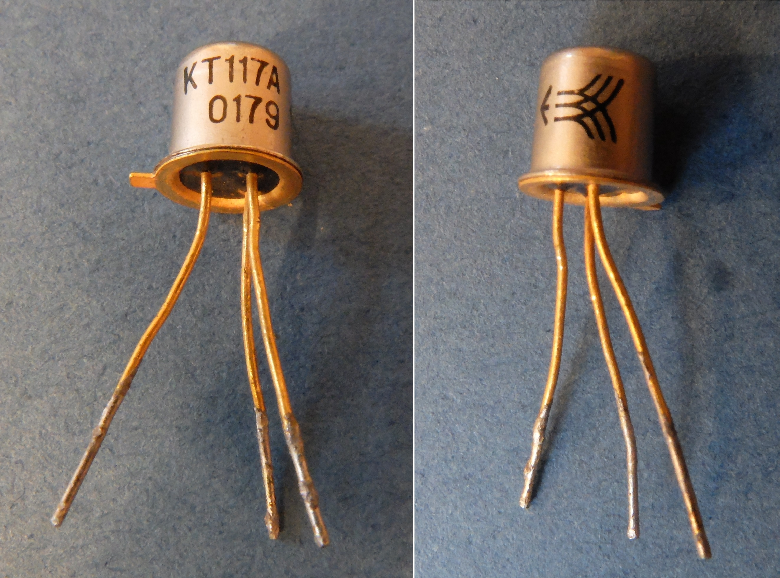 Unijunction transistor KT117A (n-type base, 30V / 50mA / 300mW / 200kHz), manufactured at the Ulyanovsk Vacuum Tube Plant in January 1979